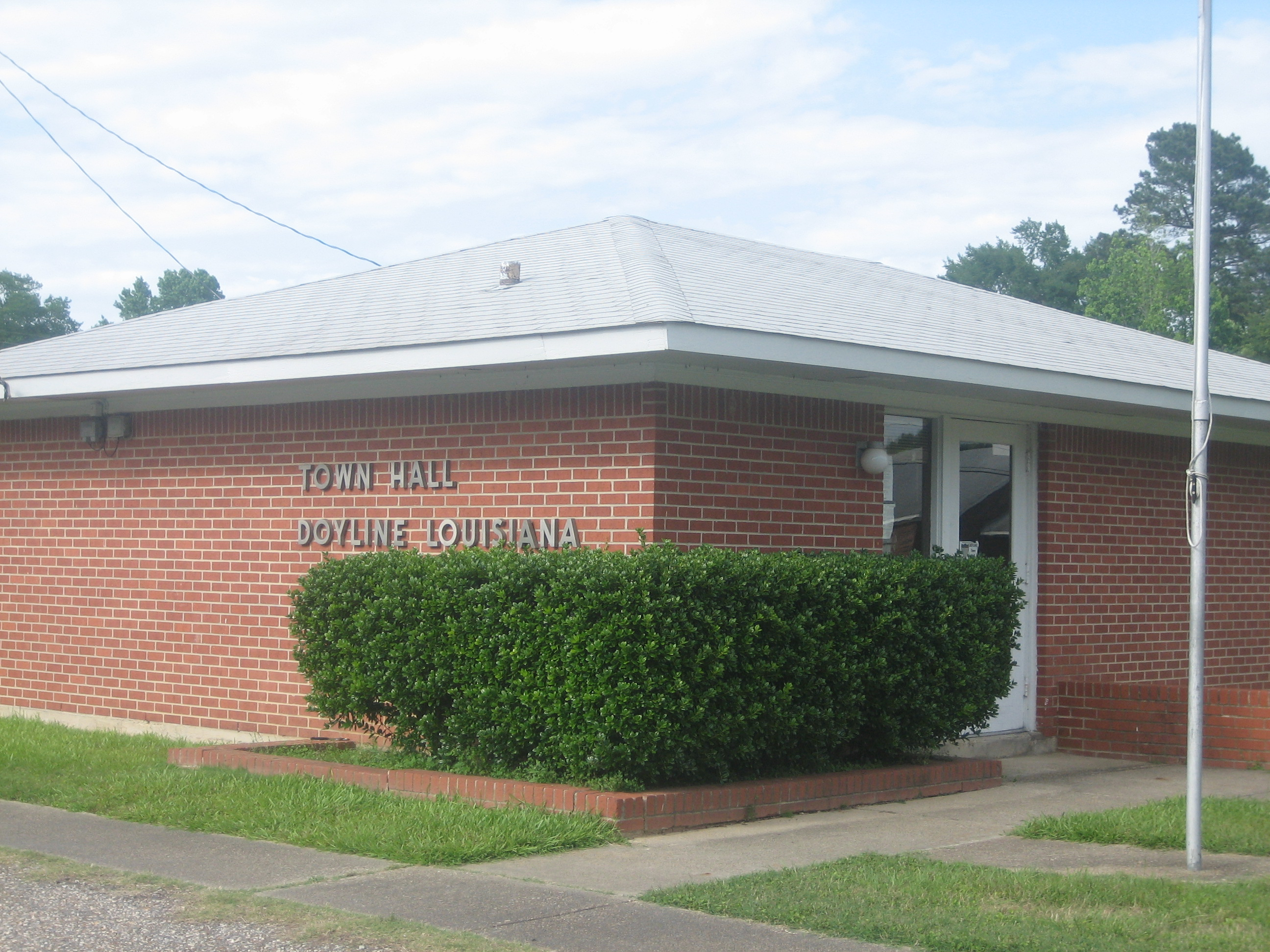 I took photo on May 21, 2009.Billy Hathorn (talk) 15:58, 29 May 2009 (UTC)